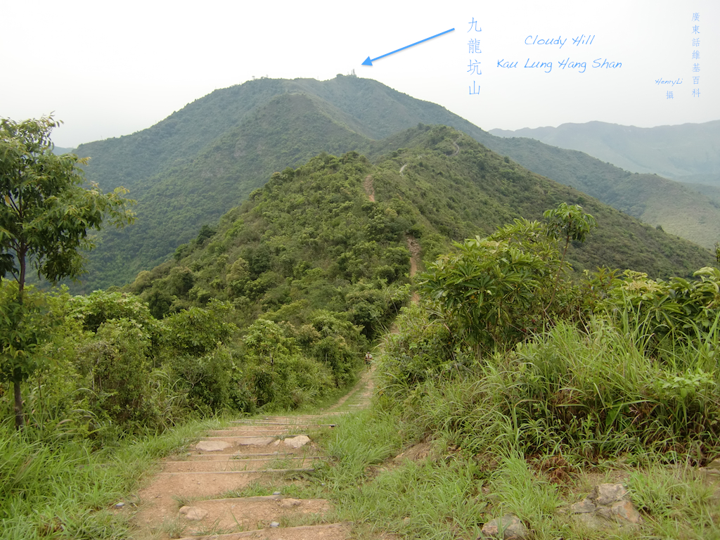 Cloudy Hill of Hong Kong. Looking from south.粵語: 香港嘅九龍坑山。由南面望過去。